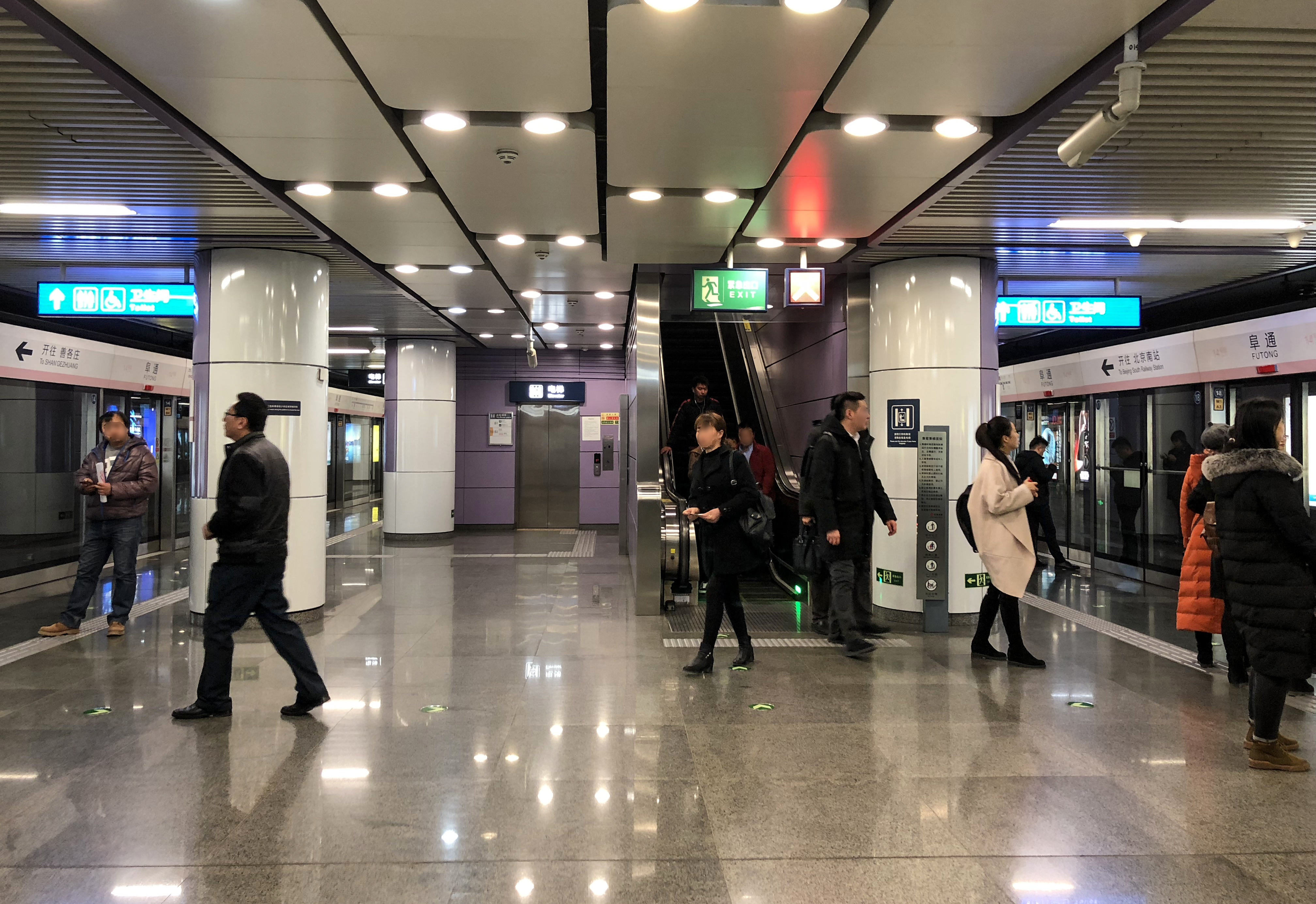 An unplanned visit to this station.